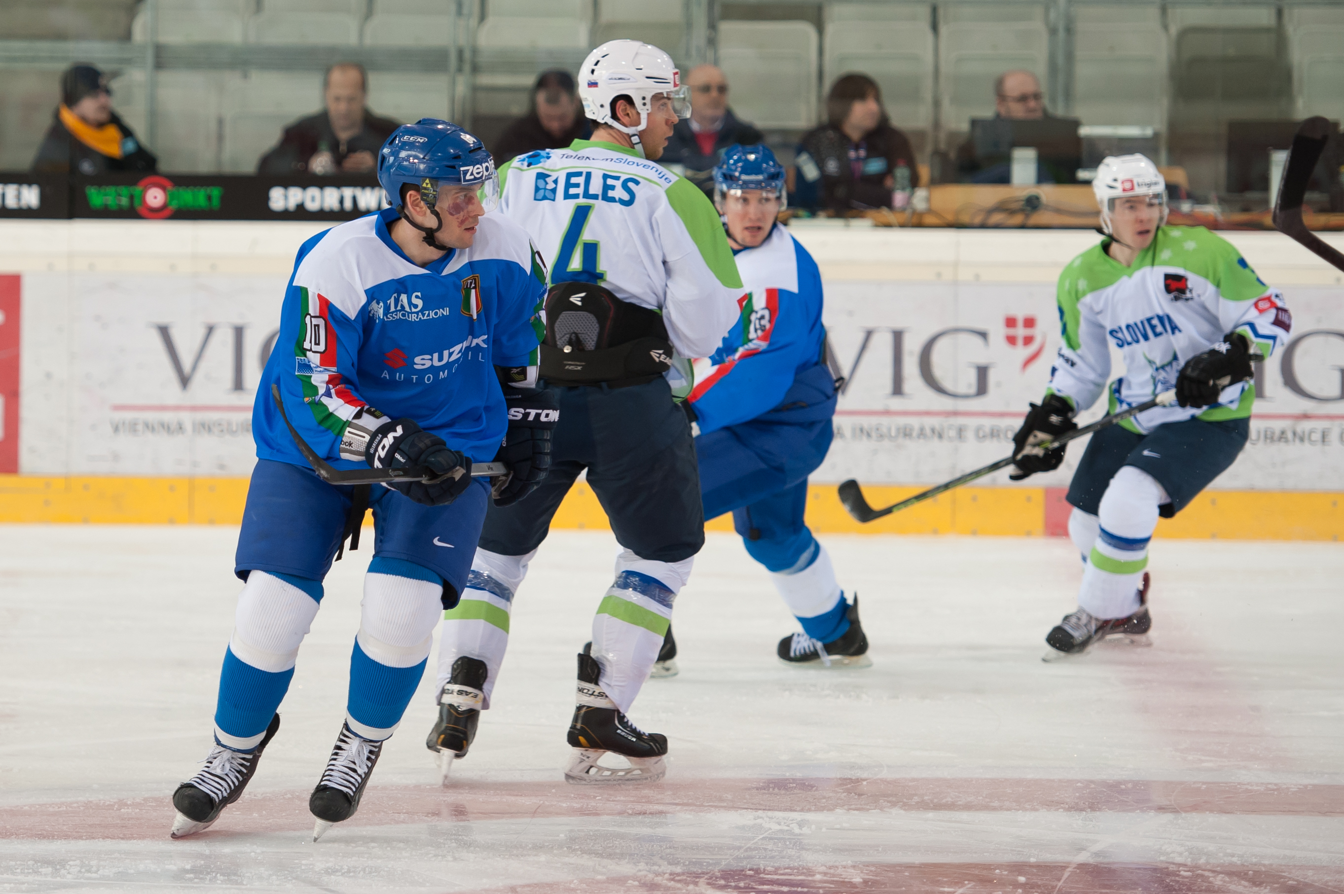 Euro Ice Hockey Challenge Vienna, February 7, 2015, Italy vs. Slovenia